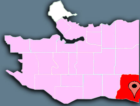 Map showing the location of Everett Crowley Park in Vancouver